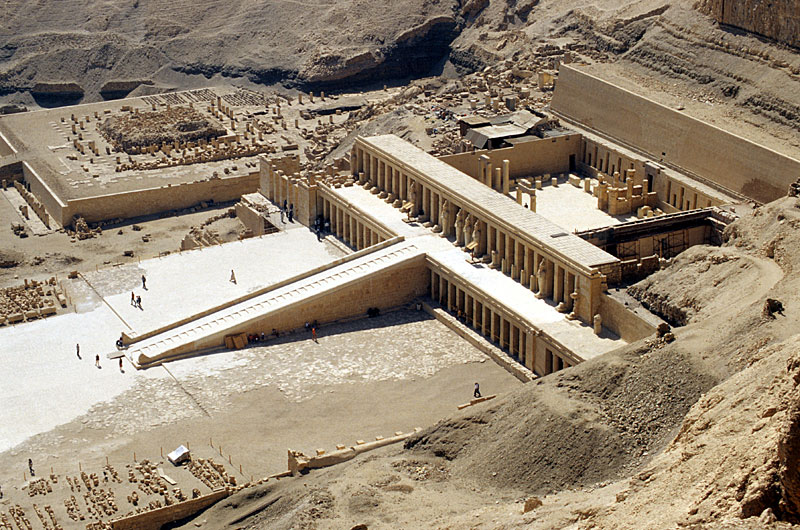 View to the temple of Hatshepsut, Deir el-Bahri, Luxor West Bank, Egypt